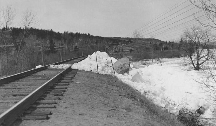 Spring Freshet and Ice Break Up, Railway Tracks, Westfield, New Brunswick, Canada.